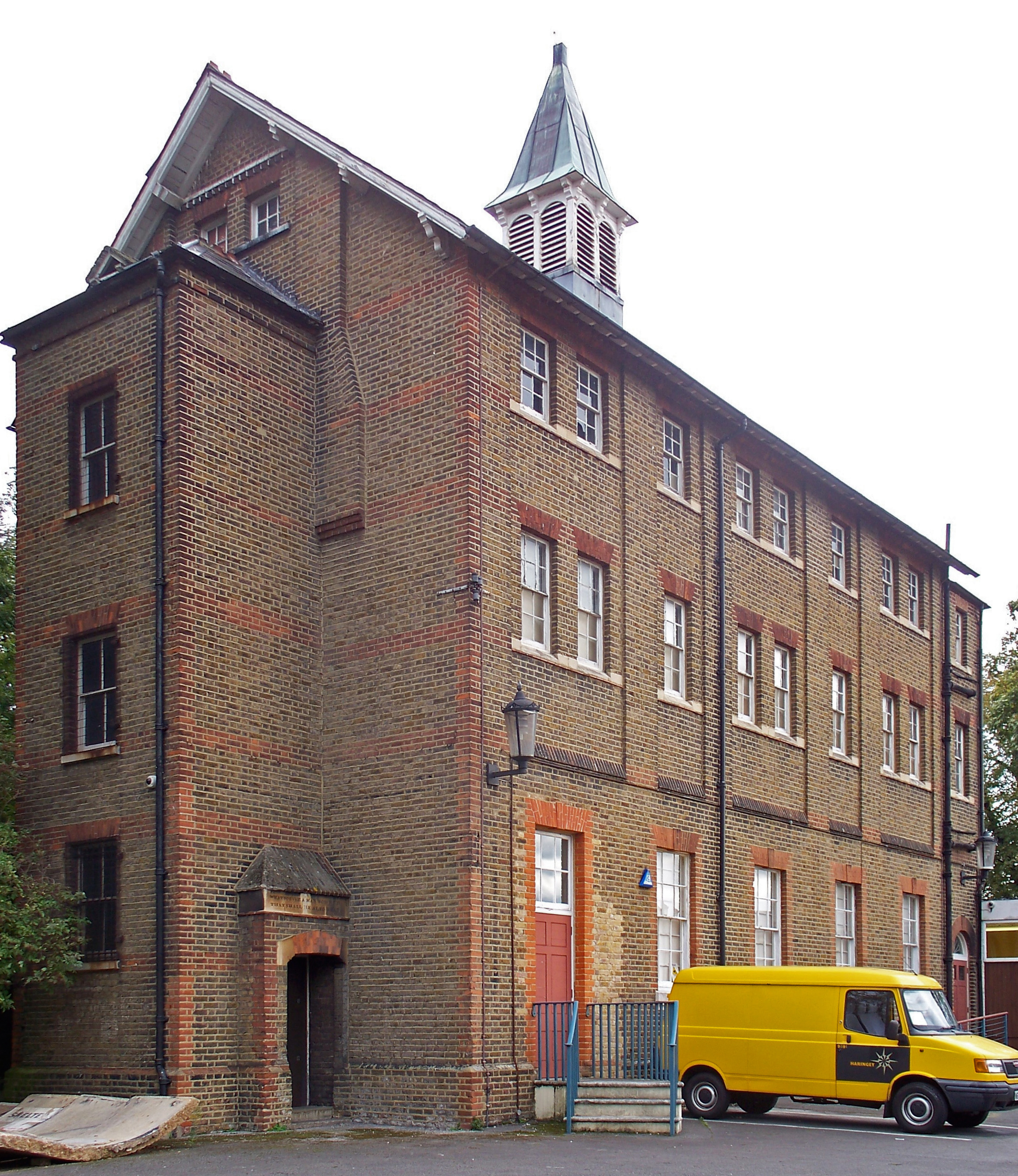 19th century extension to Bruce Castle, London, built during its conversion into a school